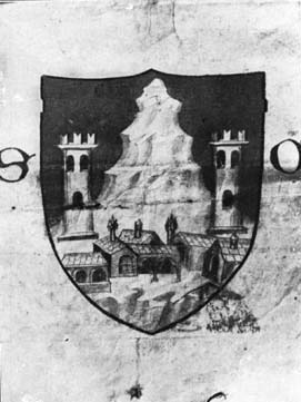 old Sonvico pictures